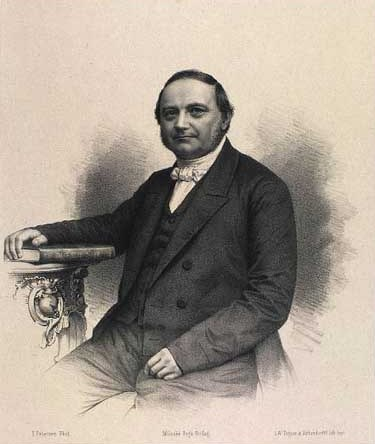 Jens Christian Edvard Theodor Mau (1808-1885), Danish priest and politician, MP